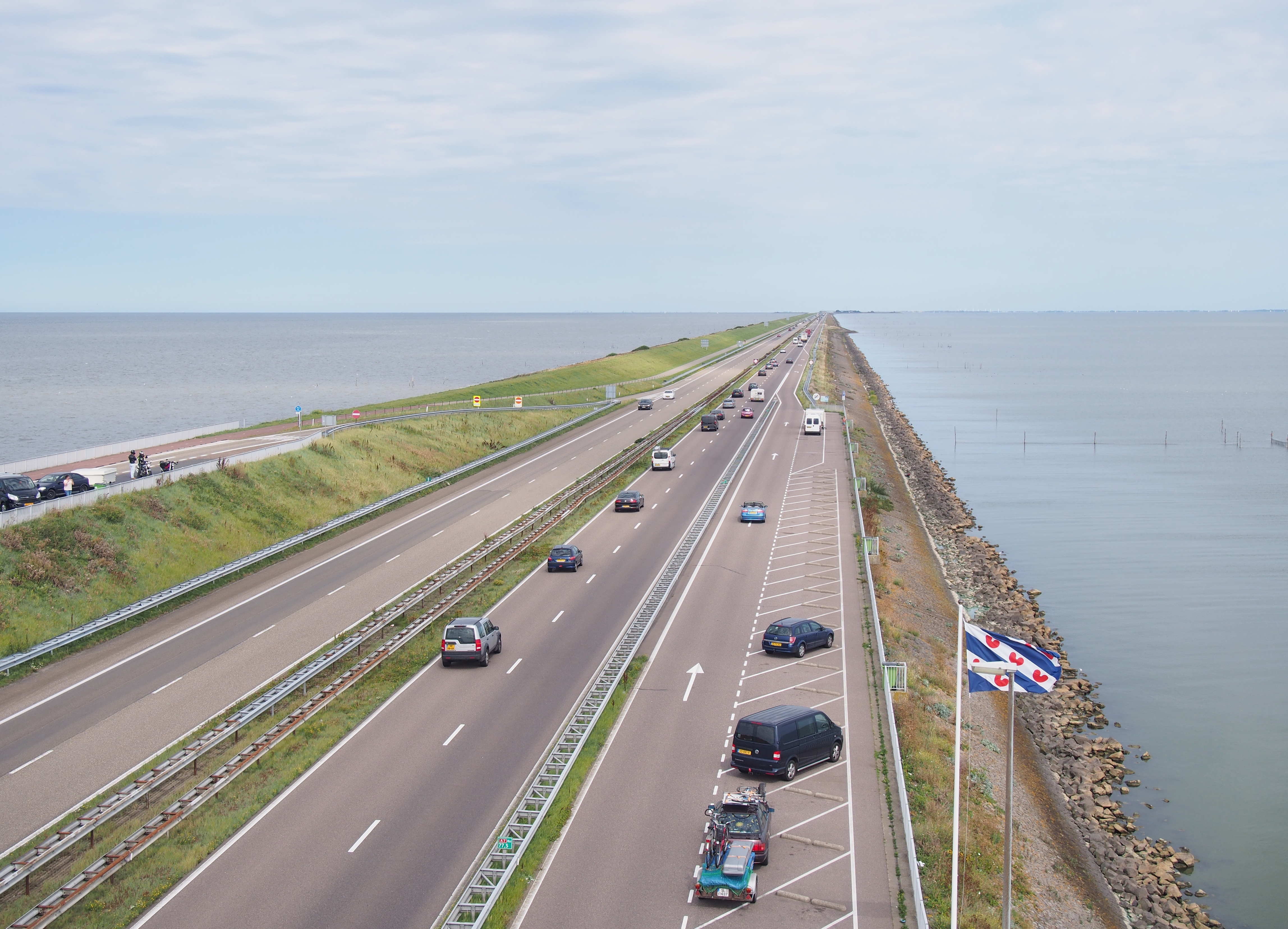 The Afsluitdijk looking north-eastwards towards Friesland from the monument tower. The Wadden Sea is to the left and the IJsselmeer is to the right. The Province Fryslân flag is in the foreground.